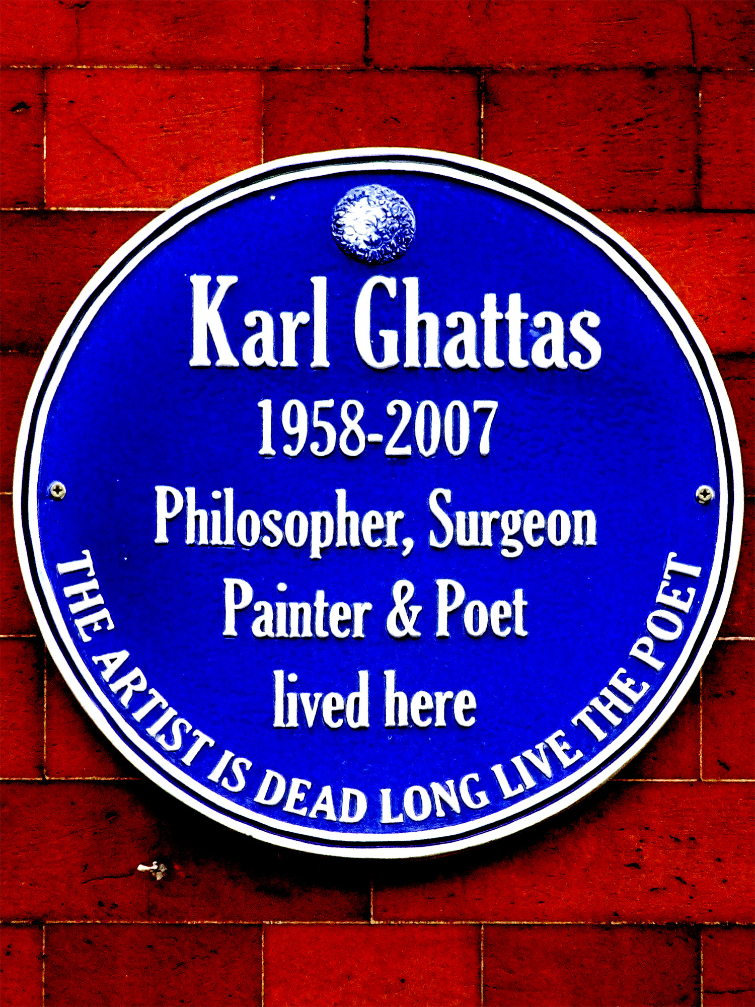 Blue plaque erected at 57 Harley Street, Marylebone, London W1G 8QS